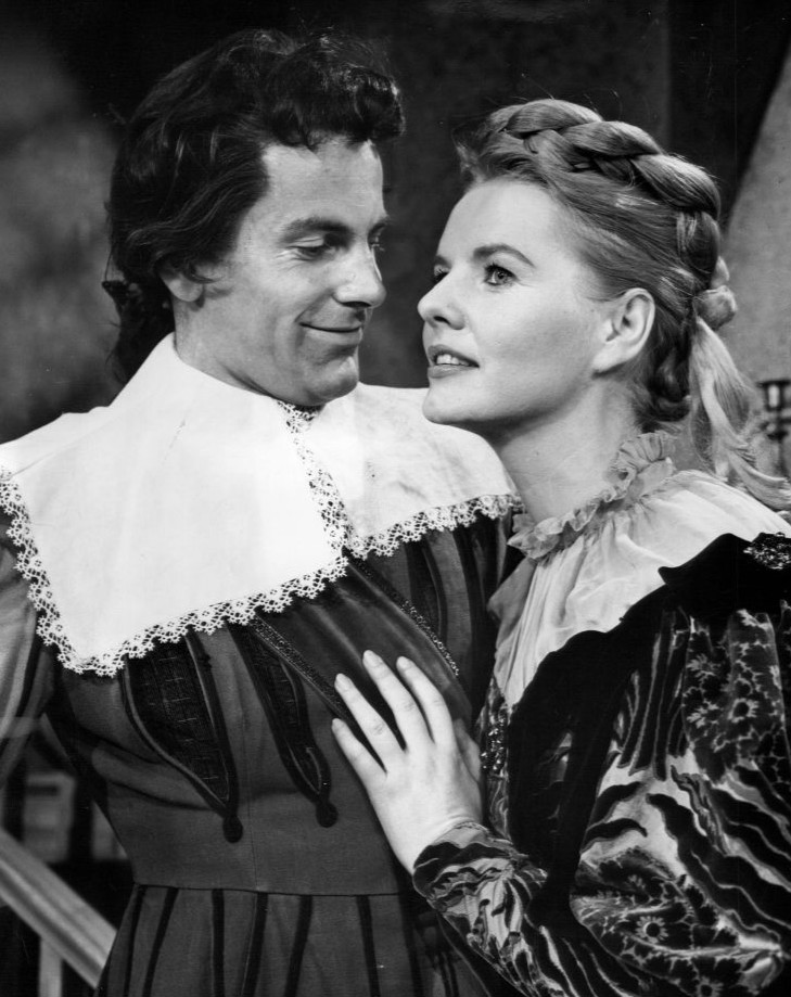 Photo of Maximilian Schell as D'Artagnan and Patricia Cutts as Milady de Winter from a 1960 television presentation of The Three Musketeers.